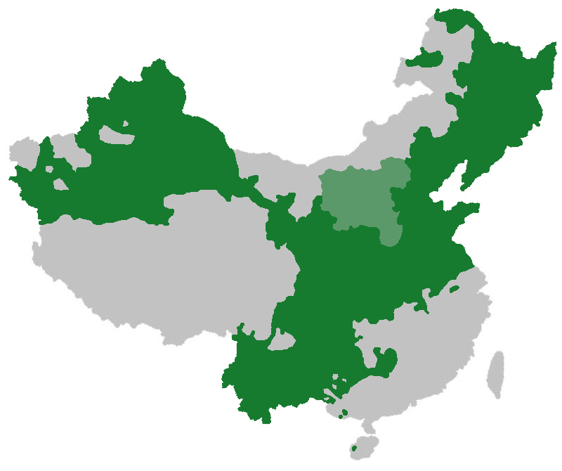 Extent of Mandarin (dark green) and Jin (light green) dialect groups, based on Language Atlas of China, by Stephen Adolphe Wurm, Rong Li, Theo Baumann and Mei W. Lee, Longman, 1987, ISBN 978-962-359-085-3.